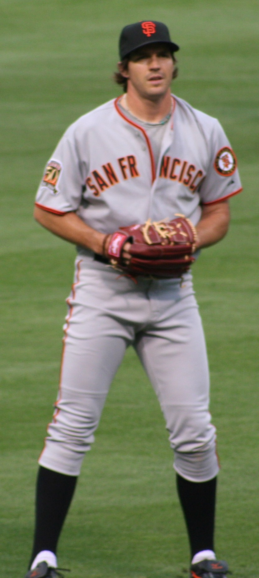 Barry Zito